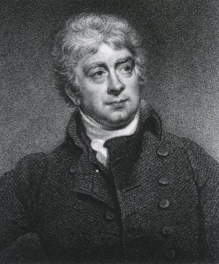 Portrait of John Sheldon (1752–1808), English surgeon and anatomist.